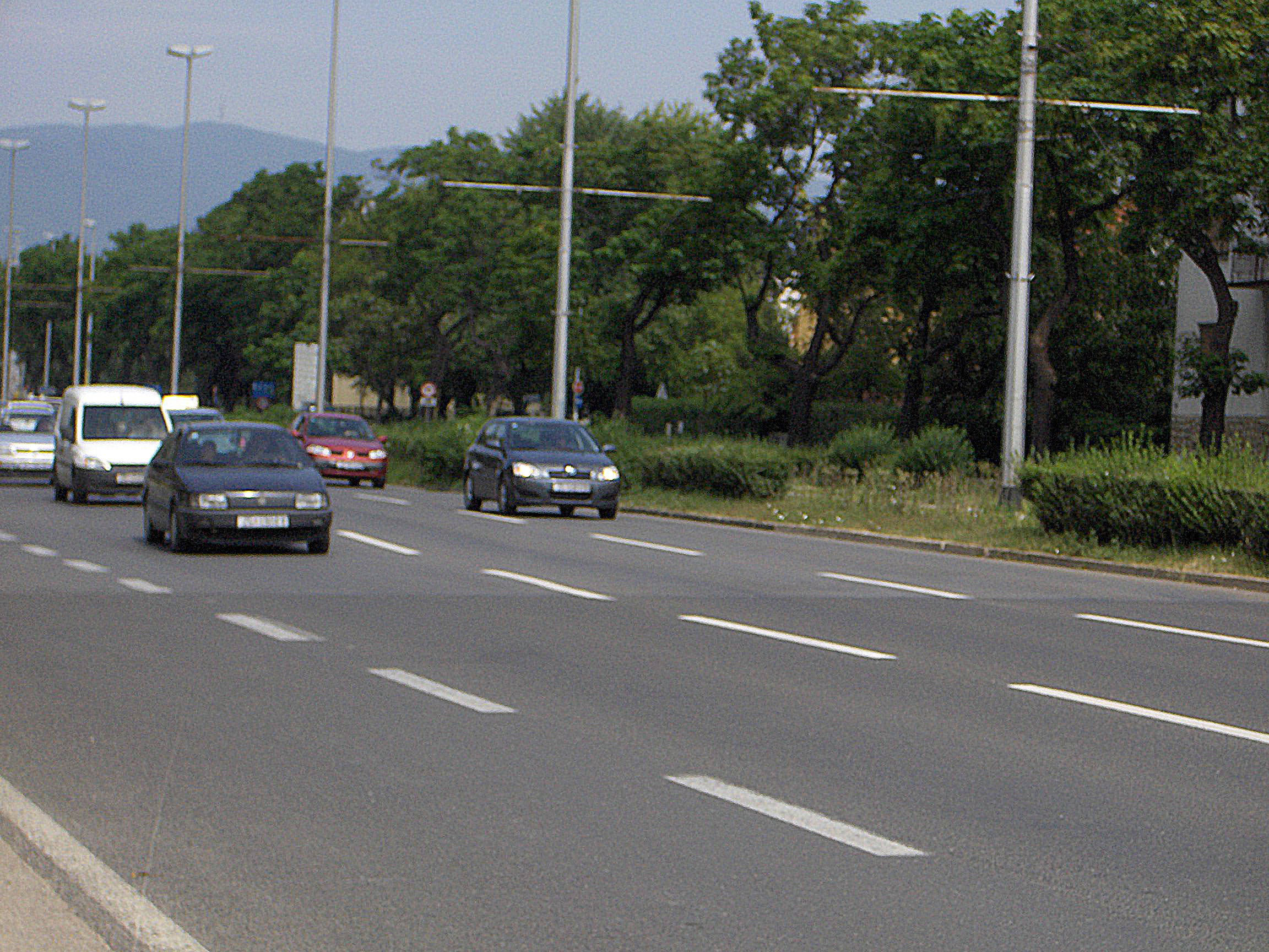 Marin Držić Avenue between Sigečica and Kruge